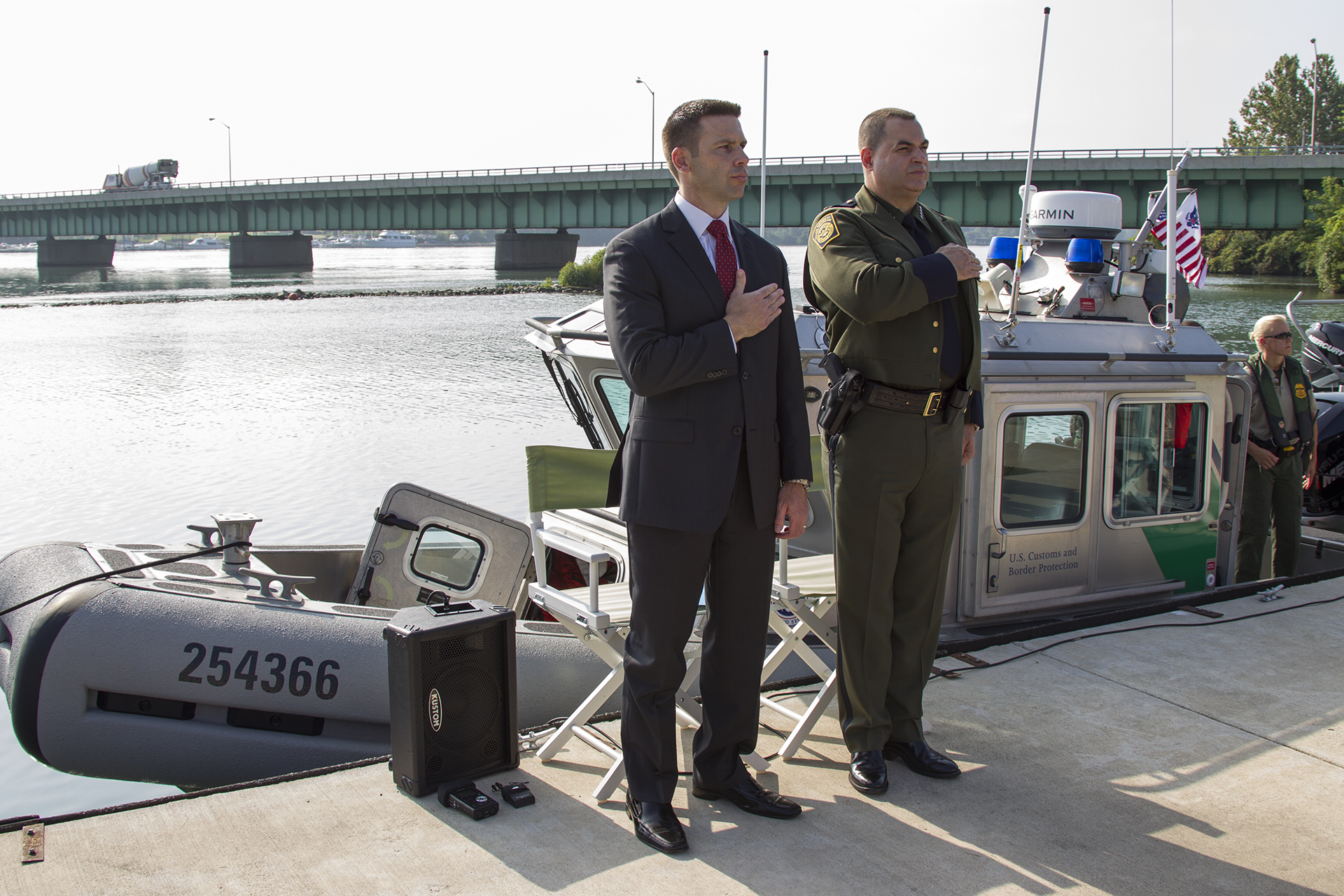 082913: U.S. Customs and Border Protection in honor and remembrance of fallen Border Patrol Agent Brian A. Terry held a CBP Vessel Dedication ceremony at the Elizabeth Park Marina, Trenton, MI. Seen here are CBP Acting Deputy Commissioner Kevin McAleenan and Border Patrol Chief Michael Fisher during the National Anthem. Photographer: Donna Burton